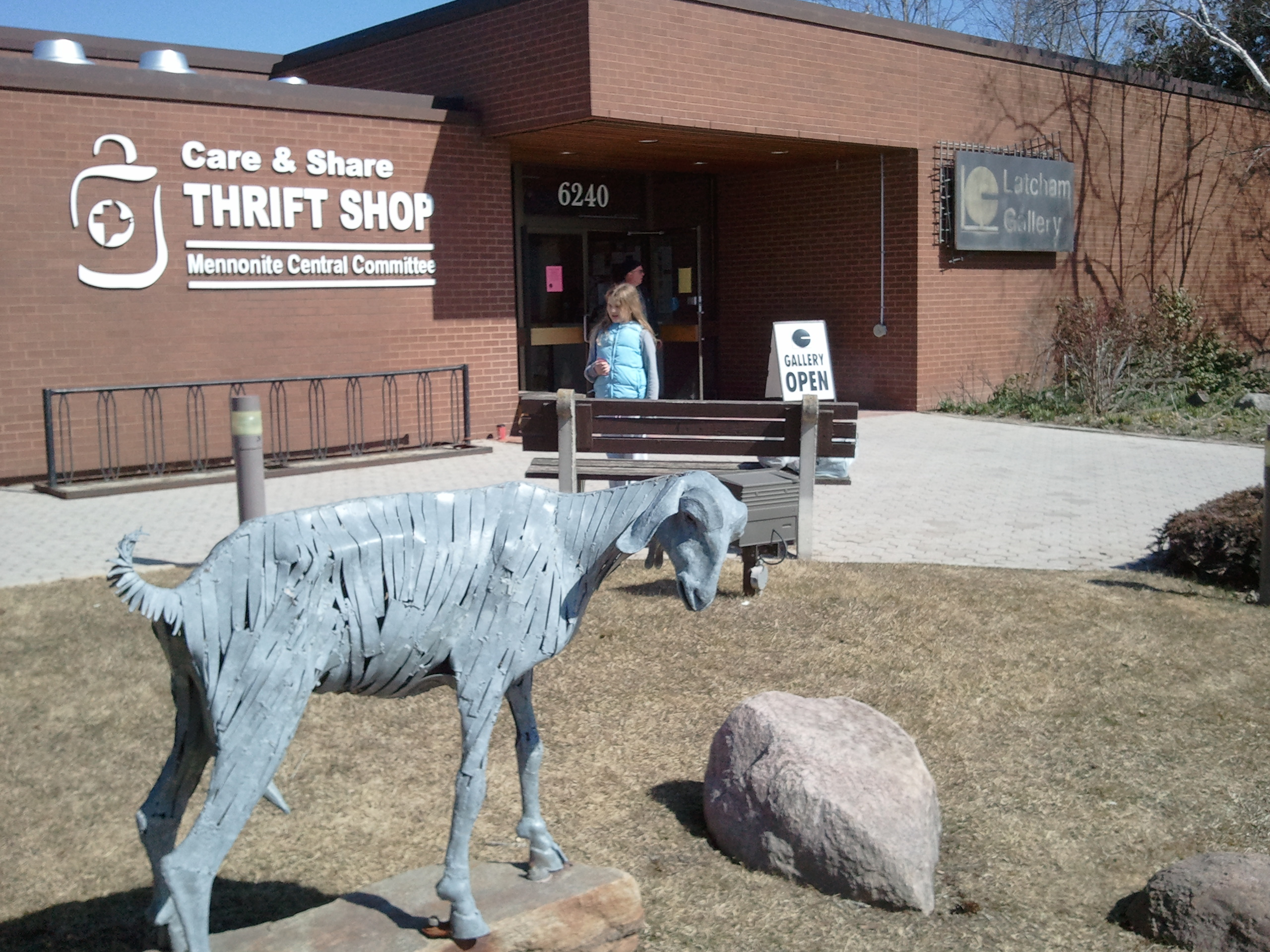 Whitchurch-Stouffville Public Library Building, 1977-2001. Main St., Stouffville. In 2011 the building was still owned by the Town of Whitchurch-Stouffville and occupied by the Latcham Gallery and the Care and Share Thrift Store.